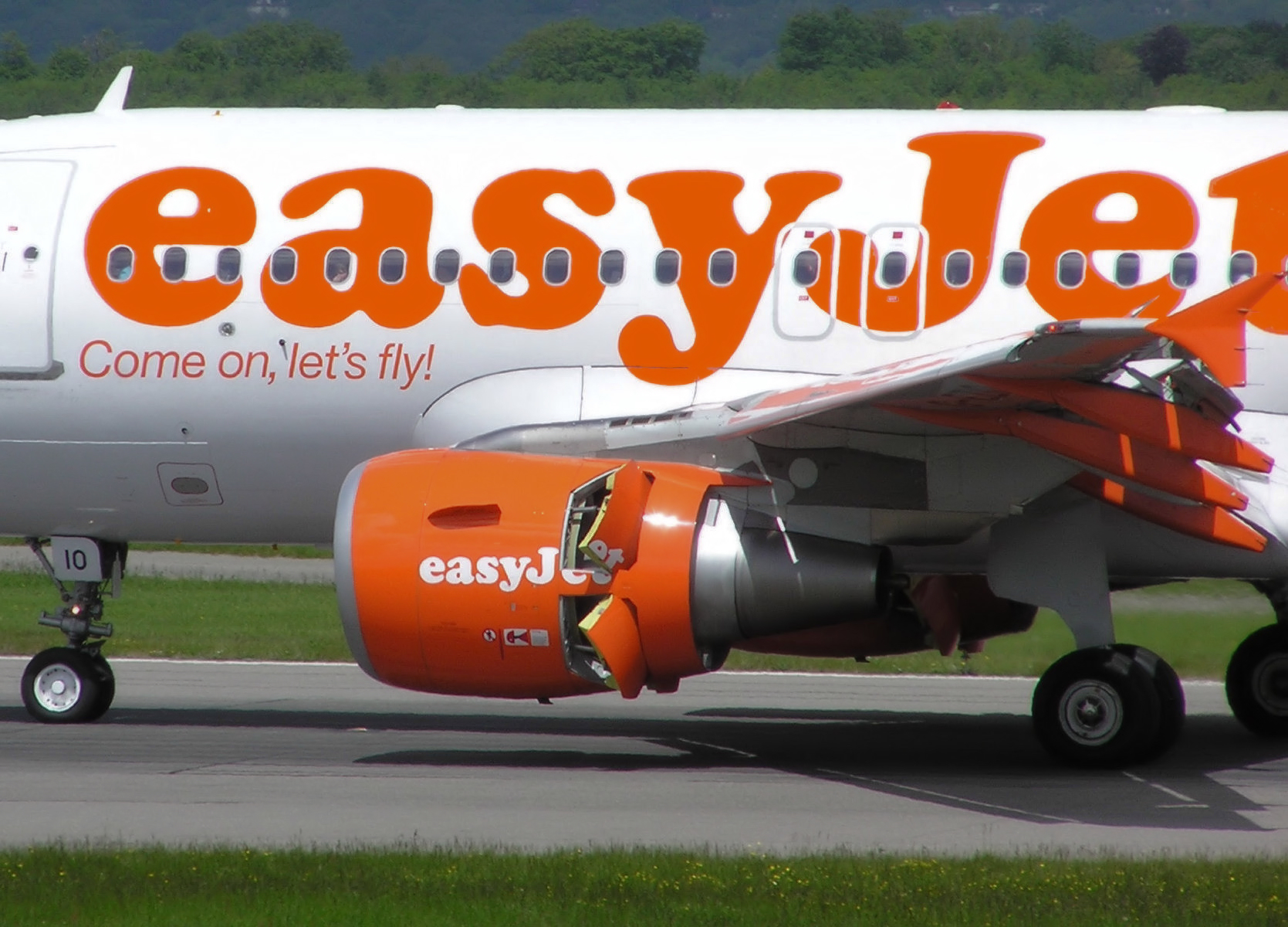 Easyjet Airbus A319-100 (G-EZIO) taxis after landing at Bristol International Airport, England, with thrust reversers still deployed.